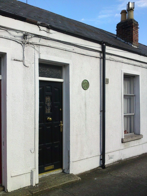 9 Innisfallen Parade. Irish Playwright Sean O'Casey lived here from 1882-1888 and named his first biography after this particular street.